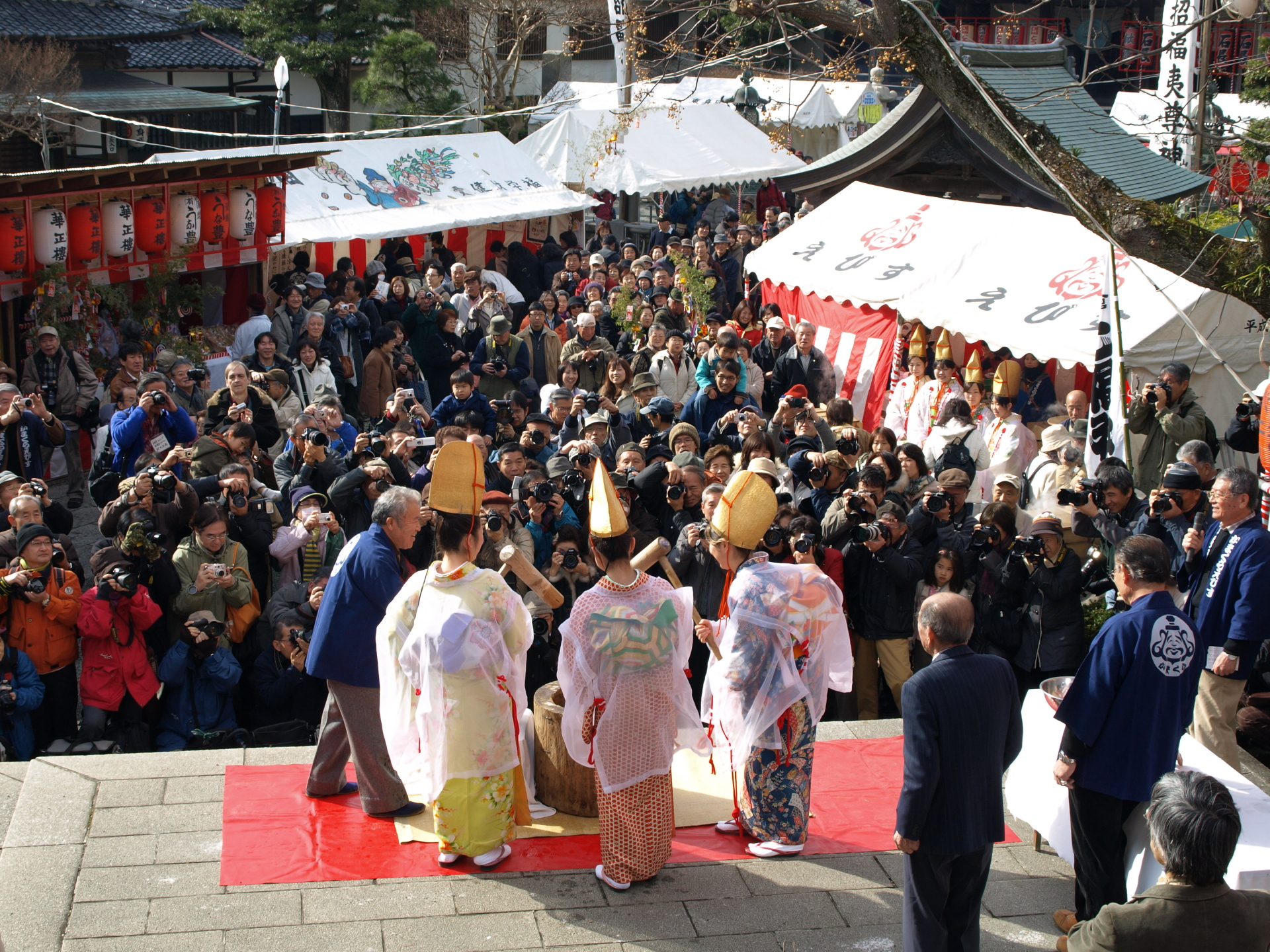 The Kamakura-Ebisu-Festival at the Hongaku-ji Temple in Kamakura Japan, on January 2010.